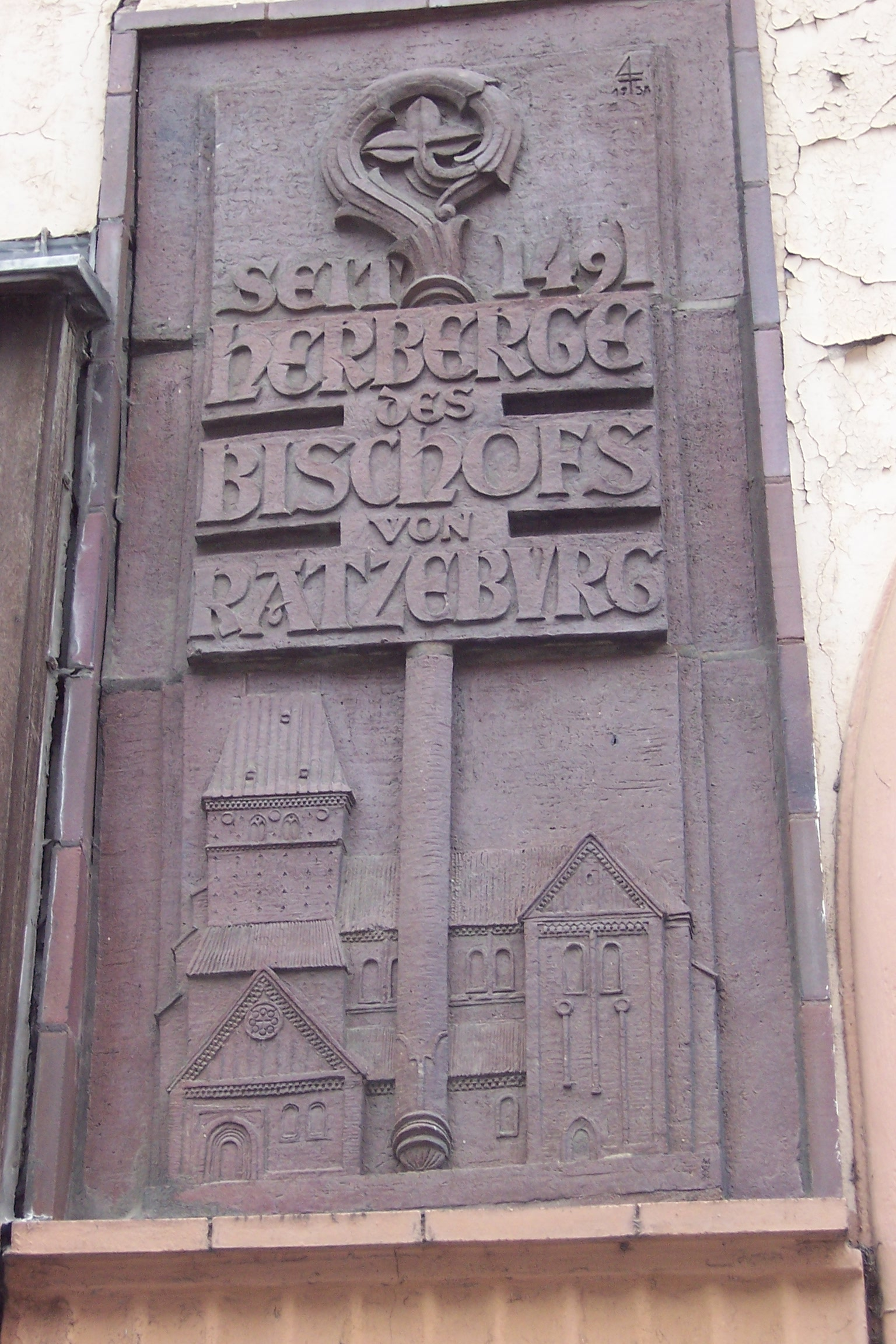 Marker at Bischofsherberge, Grosse Burgstrasse, Lübeck